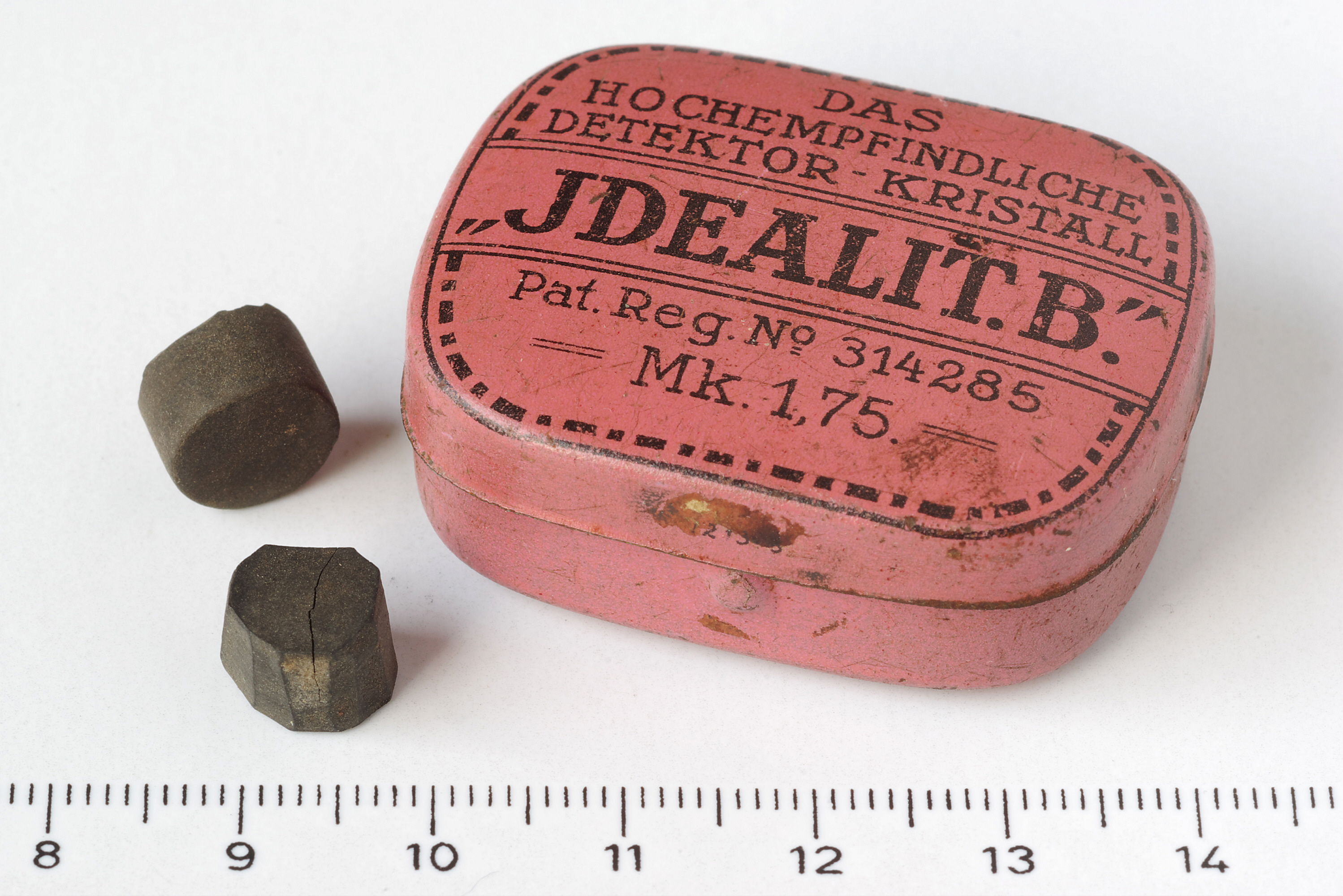 Crystals for use in cat's whisker detectors in crystal radios, with manufacturer's shipping box. The cat's whisker detector was an antique radio component used in radio receivers in the early 1900s. It consisted of a fine wire touching the surface of a mineral crystal. It functioned as a crude diode to rectify the radio signal, extracting the modulation from the radio carrier wave. The text on the box lid says in part: "Highly sensitive detector crystal"